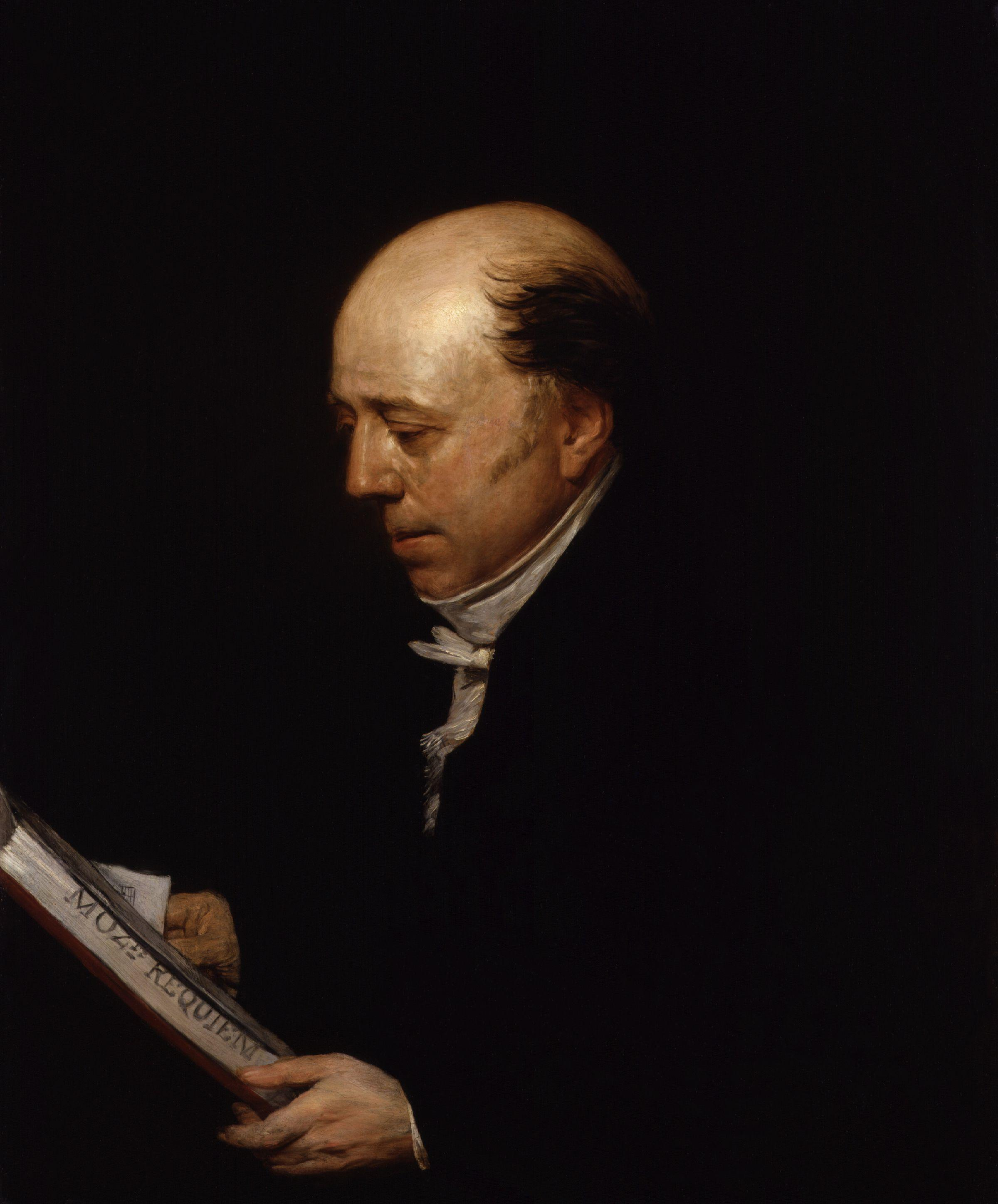 Vincent Novello, by Edward Petre Novello (died 1836). All images in this batch have been confirmed as author died before 1939 according to the official death date listed by the NPG.